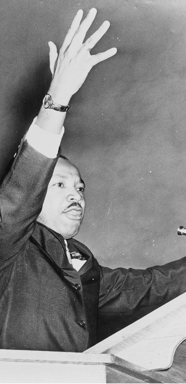 Martin Luther King, Jr., half-length portrait, facing left, with left arm raised, at freedom rally, Washington Temple Church / World Telegram & Sun photo by O. Fernandez.The present version has been cropped and flipped horizontally.